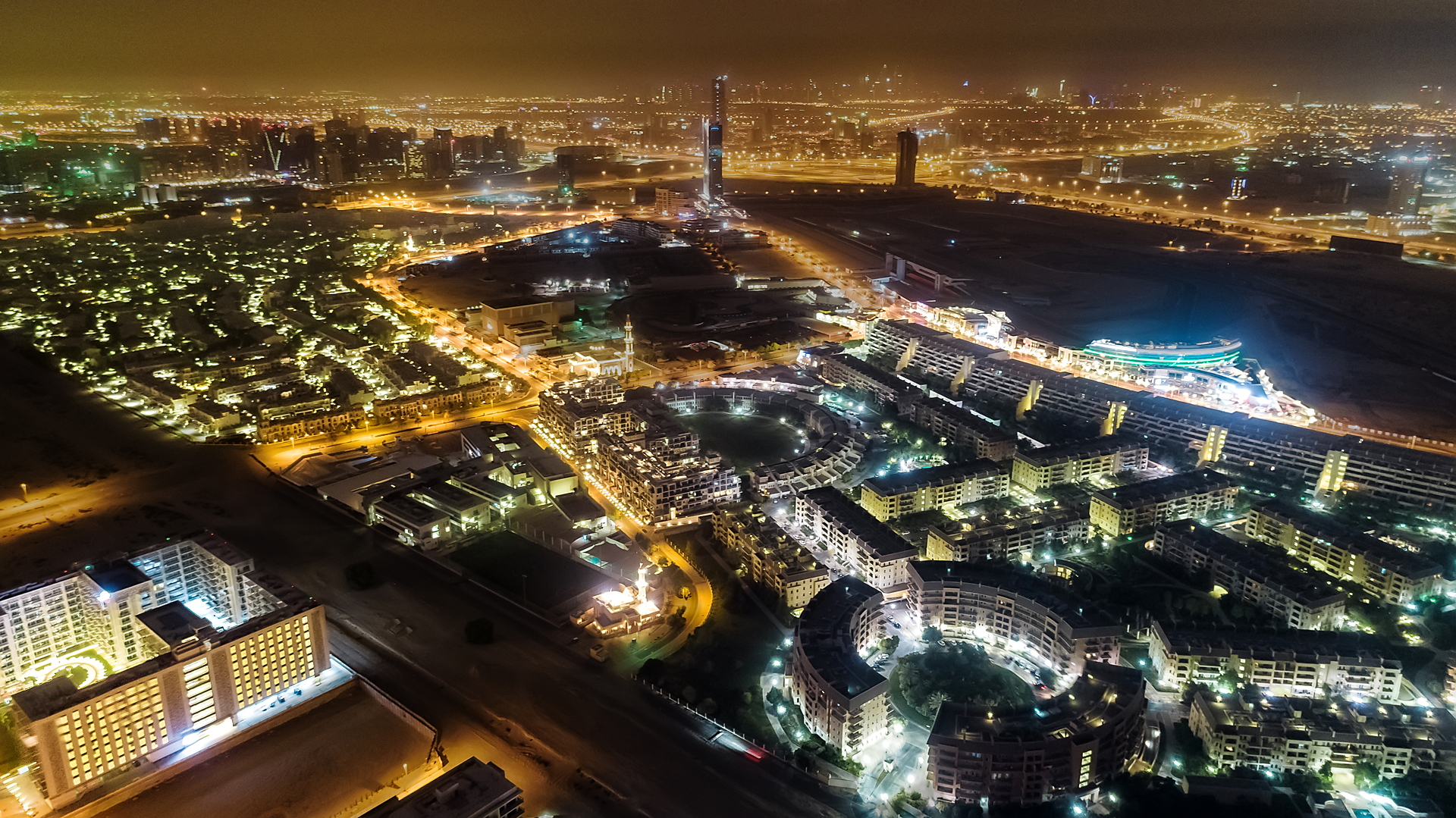 Dubai Motor City neighborhood located in Dubai city